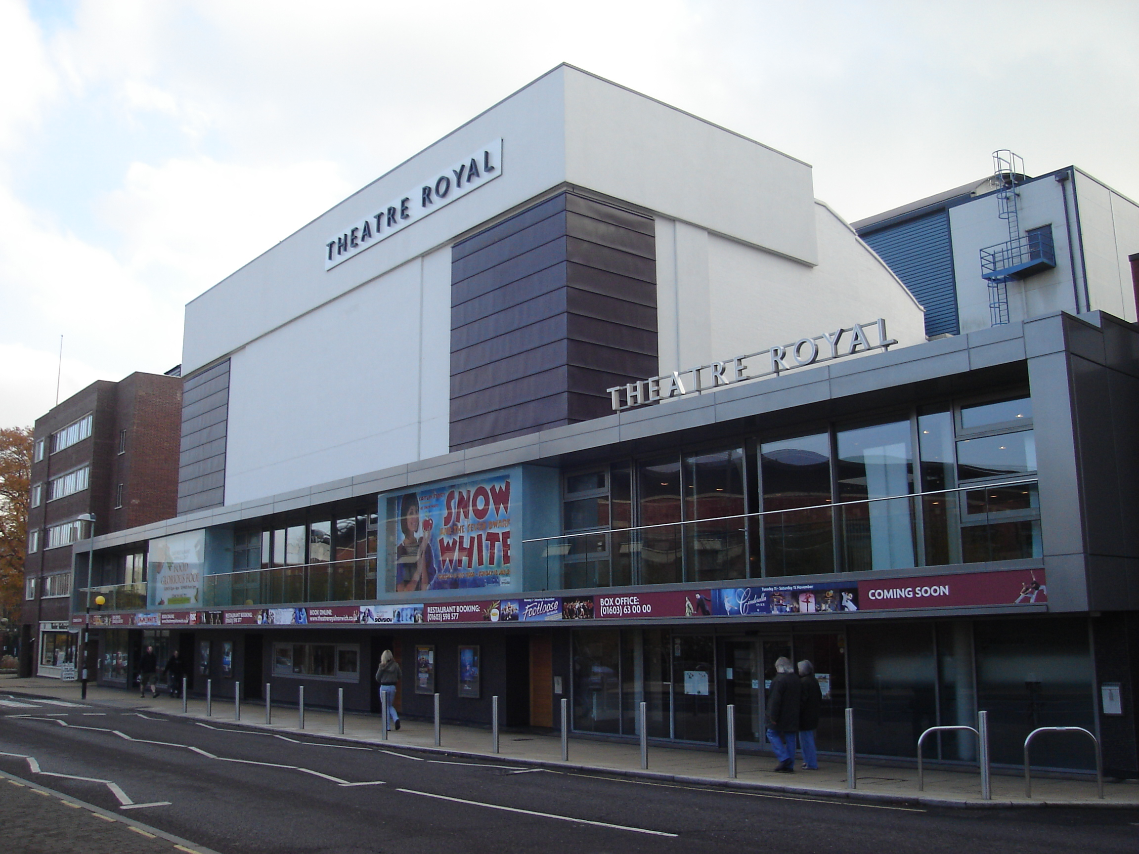 Picture of the Norwich Theatre Royal